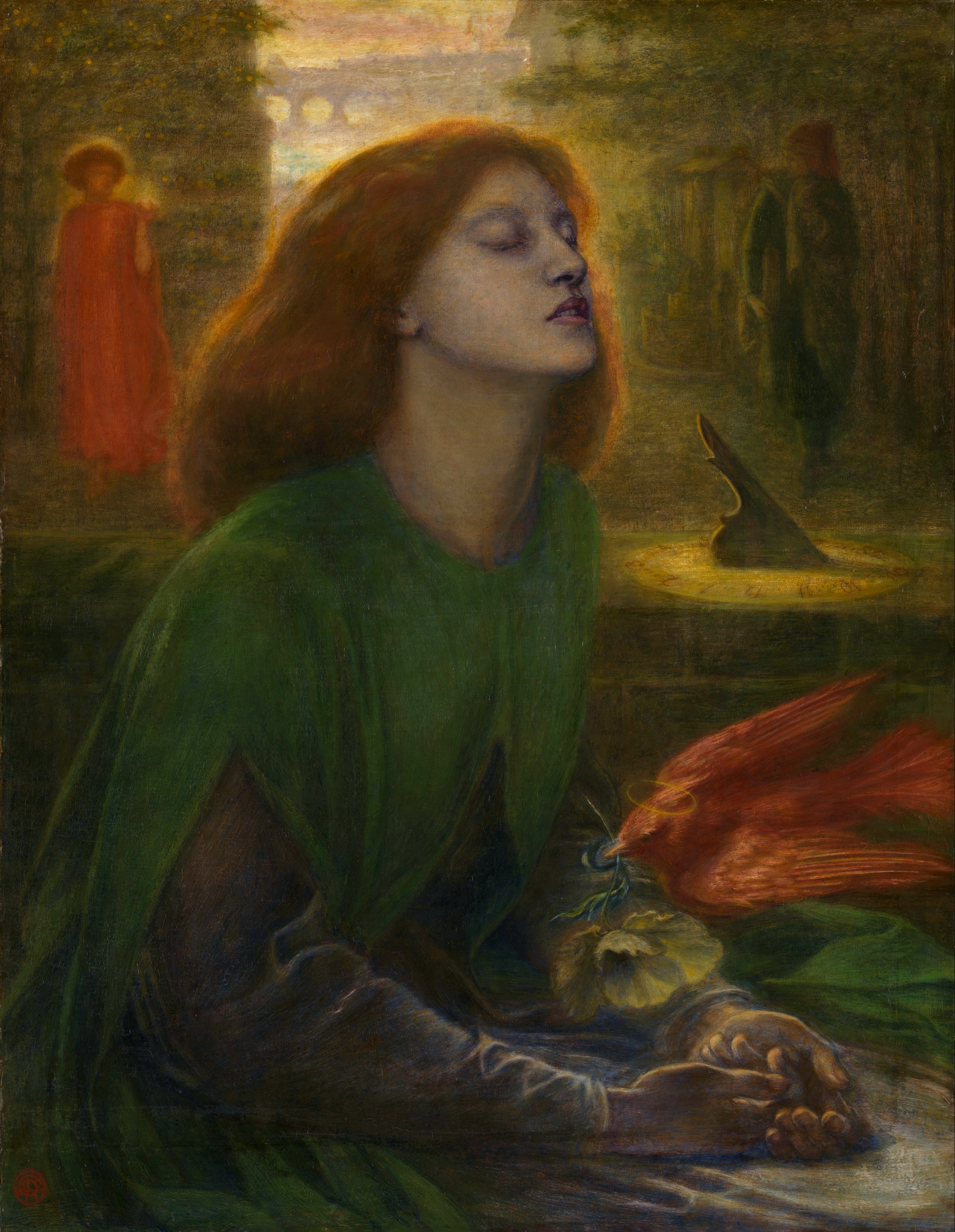 Beata Beatrix